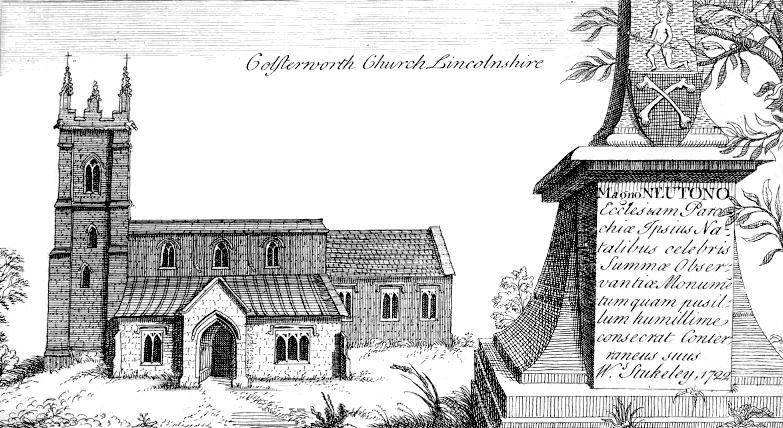 A drawing of Colsterworth Church, Lincolnshire by William Stukeley. This image is an edited version of the original, published in Memoirs of Sir Isaac Newton's life, by William Stukeley.